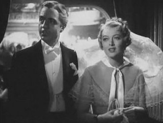 Cropped screenshot of William Powell and Myrna Loy from the trailer for The Great Ziegfeld